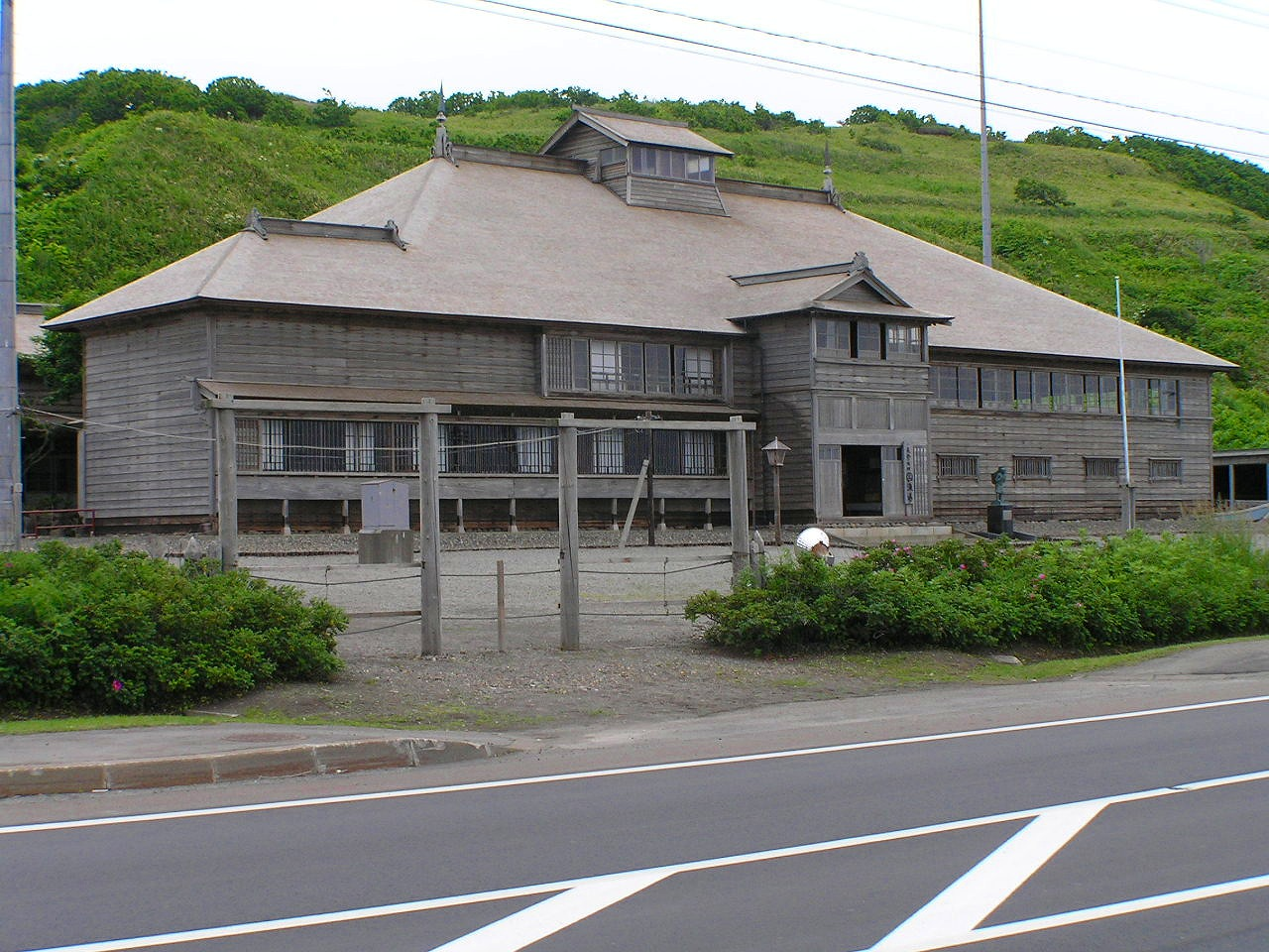 Kyu Hanada-ke Banya ("Old watch guard house of Hanada clan") at Michinoeki Obira Nishinbanya